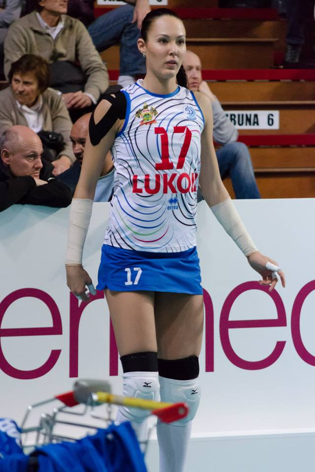 Natalia Dianskaja, playing for Dynamo Krasnodar